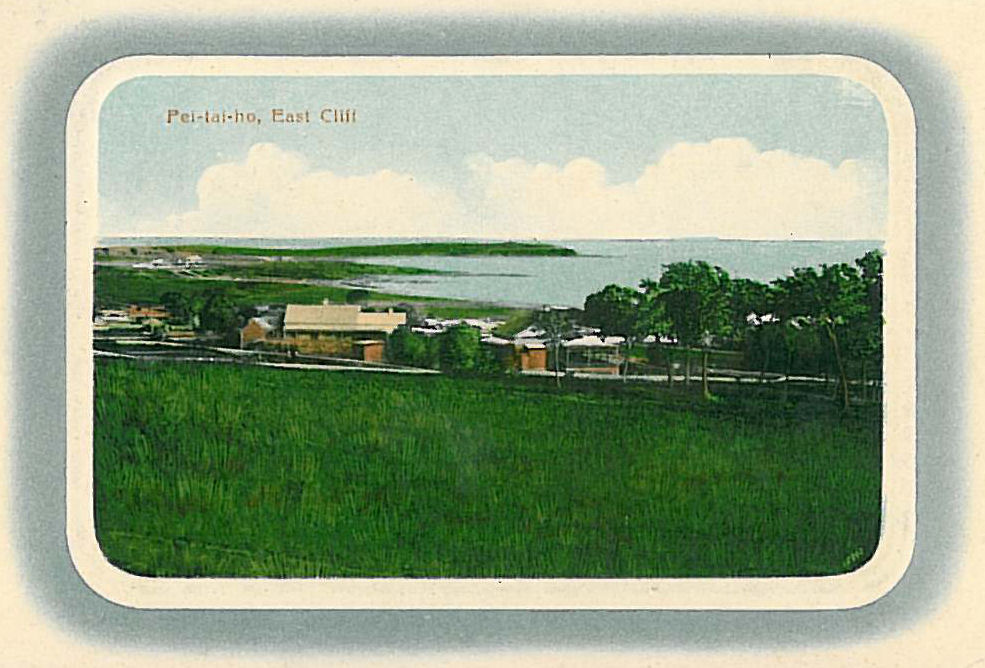 historical view of Beidaihe